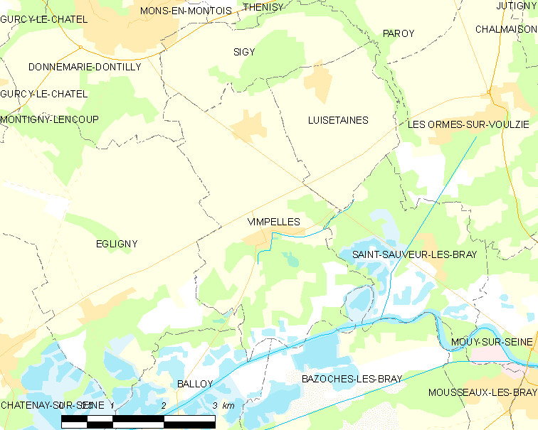 Map of French municipality Vimpelles